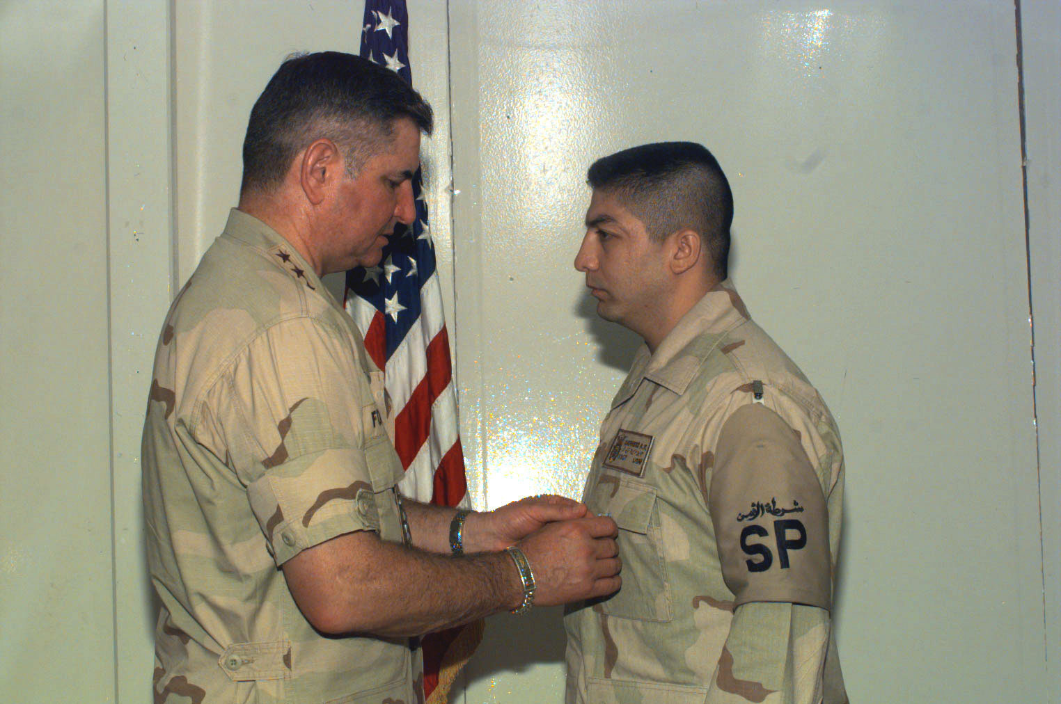 U.S. Air Force Chief of Staff Gen. Ronald R. Fogleman (left) presents the Airman's Medal to security policeman Staff Sgt. Alfredo R. Guerrero on July 3, 1996, in Saudi Arabia. Guerrero began evacuating the top two floors of Building 131 at Khobar Towers after spotting the terrorist truck that exploded 3 1/2 minutes later. After the explosion, Guerrero continued to evacuate the wounded and assisted with CPR and First Aid. The explosion outside the northern fence of the Khobar Towers complex near King Abdul Aziz Air Base on June 25, 1996, killed 19 and injured over 260. Guerrero, a Modesto, Calif., native, is deployed to Saudi Arabia from Edwards Air Force Base, Calif.